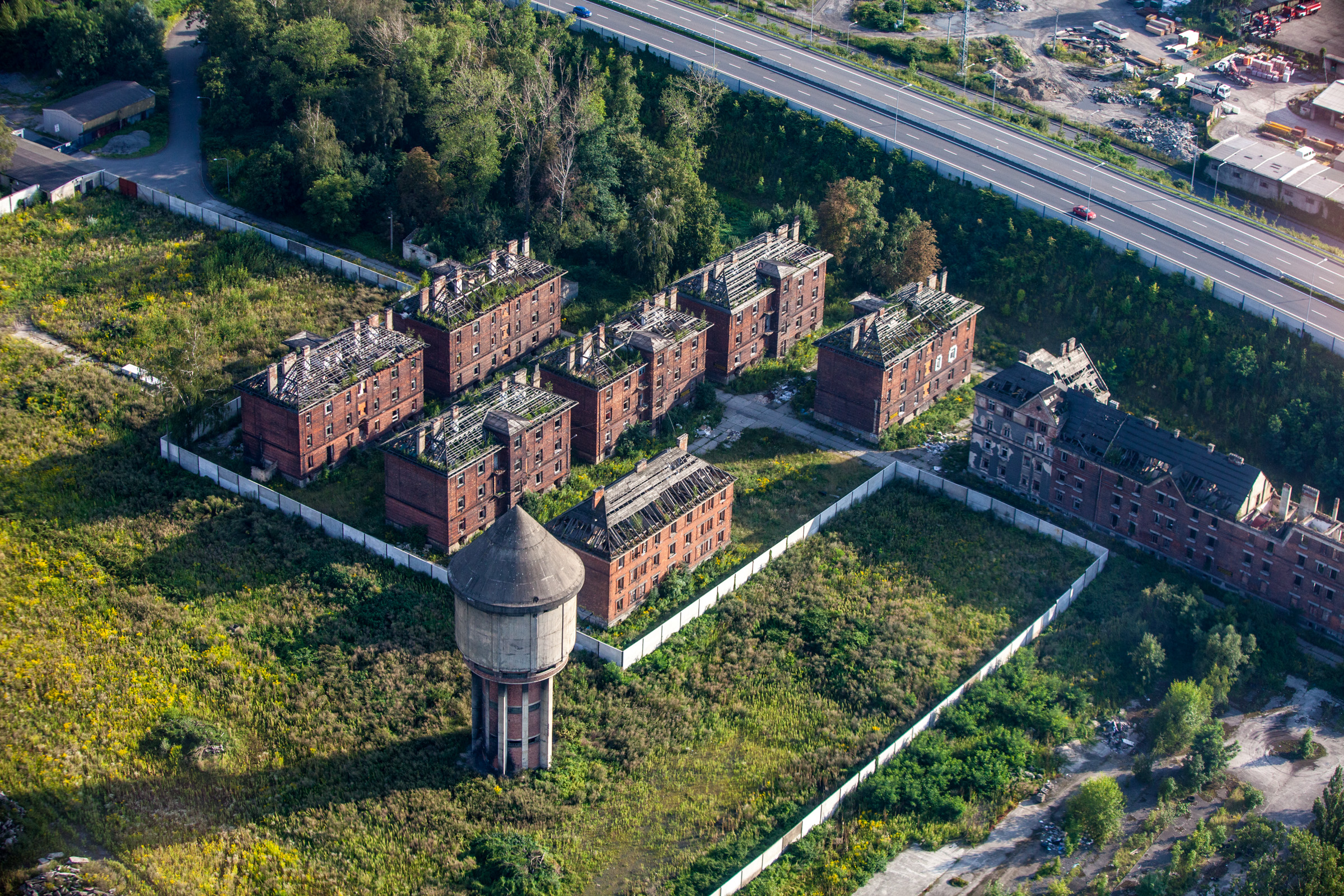 Aerial photo of buildings, Czech Wikipedia already has an item on it at